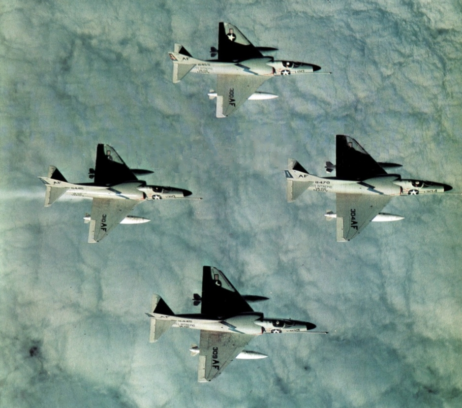 Four U.S. Navy Douglas A4D-2N Skyhawk aircraft (BuNo 148445, 148446, 148455, 148470) from Attack Squadron 66 (VA-66) "Waldos" in flight. VA-66 was assigned to Carrier Air Group 6 (CVG-6) aboard the aircraft carrier USS Intrepid (CVA-11) for a deployment to the Mediterranean Sea from 3 August 1961 to 3 March 1962. 148455 was the personal aircraft of the Commander of Carrier Air Group 6. 148470 was later in service with VA-36, CVW-10, also aboard the Intrepid, and collided with another Skyhawk on 20 August 1968 while returning from mission over North Vietnam. The pilot ejected and was rescued, the other aircraft made a barrier landing.